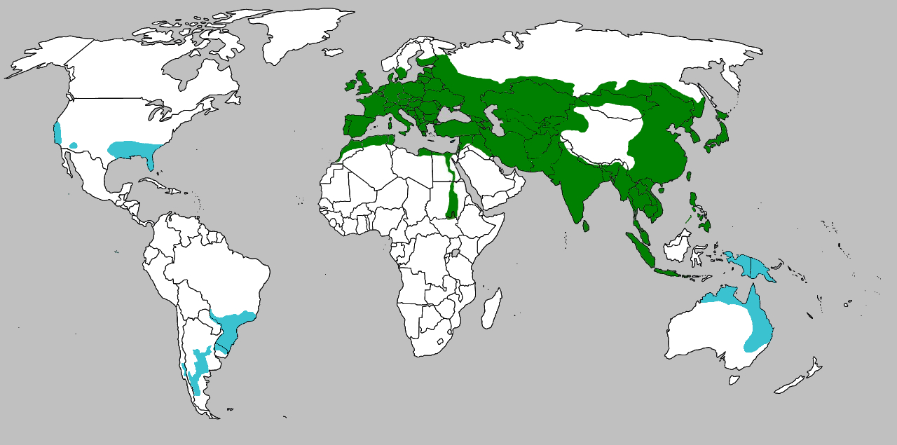 Reconstructed range (green) and introduced (teal) Sus scrofa